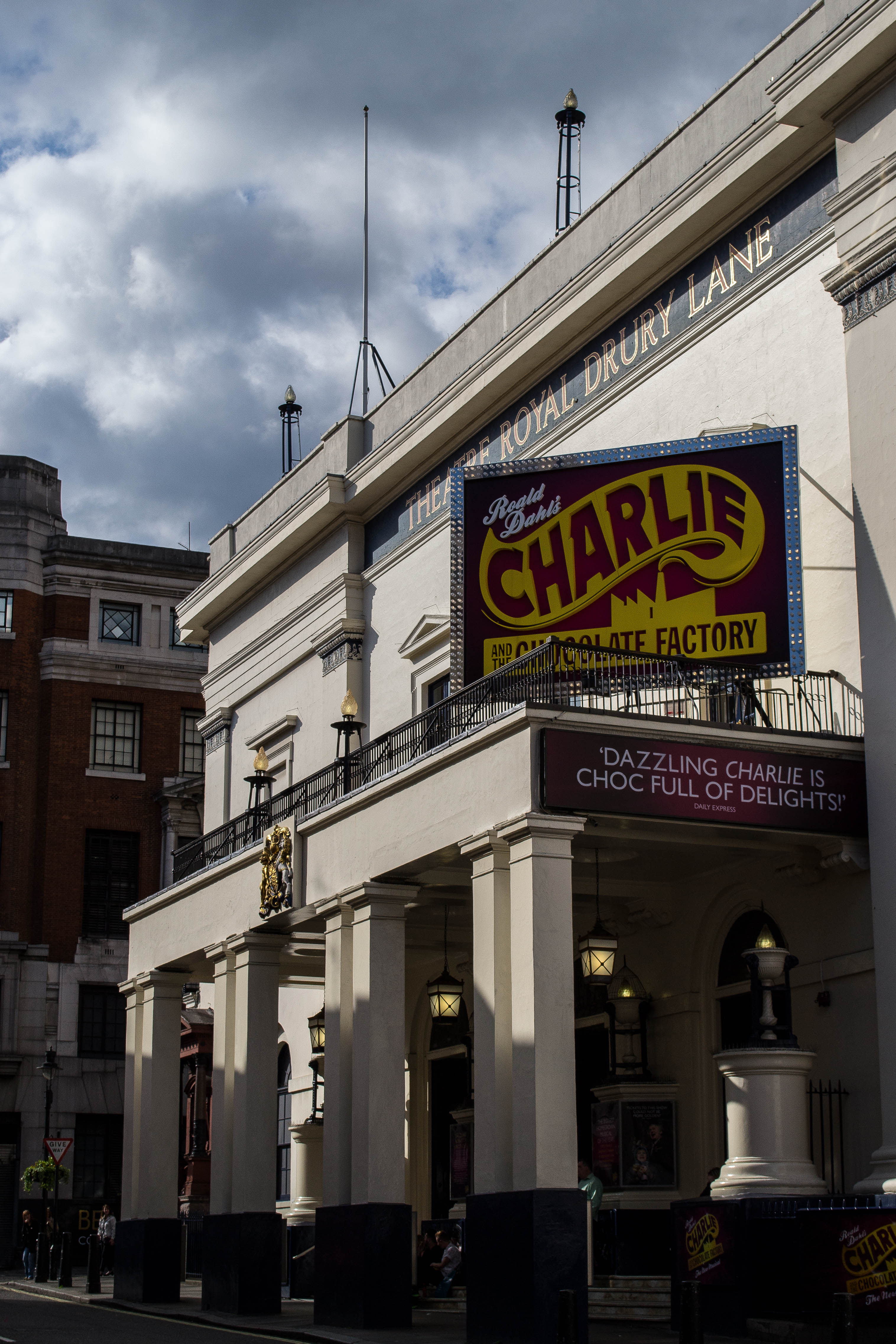 THEATRE ROYAL THEATRE ROYAL DRURY LANE AND ATTACHED SIR AUGUSTUS HARRIS MEMORIAL DRINKING FOUNTAIN Wikidata has entry Q1756626 with data related to this building.